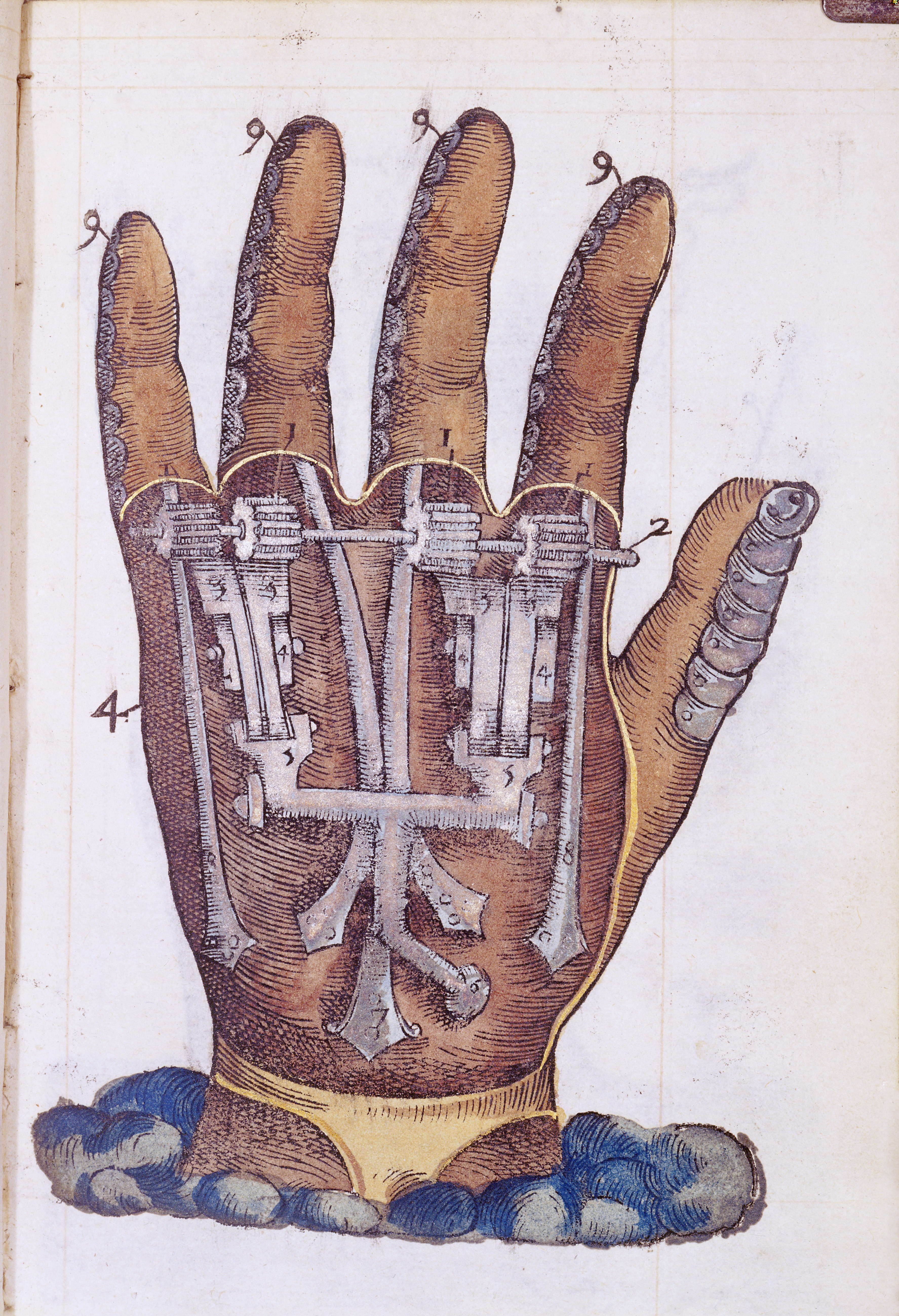 Artificial hand. Rare Books Keywords: prothesis; Surgical Instruments; Anatomy; Ambroise Paré